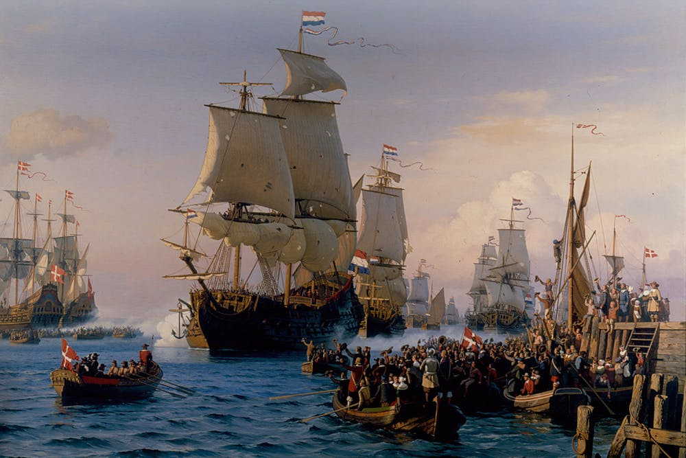 The arrival of the Dutch fleet at Copenhagen on October 1658. By Carl Neumann, 1880, Det Nationalhistoriske Museum at Frederiksborg Castle.